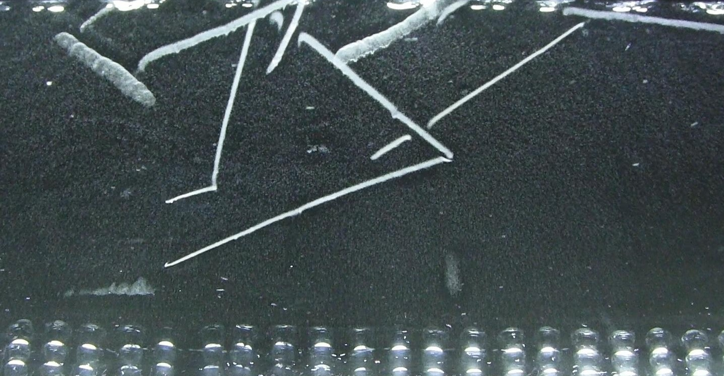 Thoron gas (220Rn, T1/2 : 55 sec) decay by emiting an alpha particle to 216Po (T1/2 : 0,14 sec, Eα =6,28 MeV). This nucleus of Po216 is unstable and decay immediately into 212Pb giving a second alpha particle. The 212Pb decay by beta- but it's half life is too long to see the electron (T1/2 : 10,6 hrs, β-). We observe "V" shapes (2 alpha particles) which come from the radioactive decay of 220Rn into 216 Po and 216 Po into 212 Pb